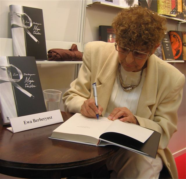 Ewa Berberyusz (b. 1929), Polish writer and journalist